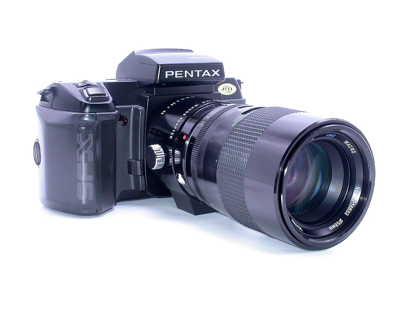 Pentax SFX camera with Vivitar macro lens.